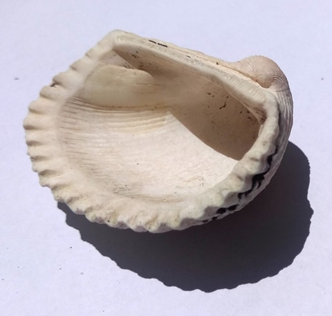 A mollusc valve of Anadara notabilis (Röding, 1798)[1]; specimen from Ubatuba, São Paulo, Brazil (1995).